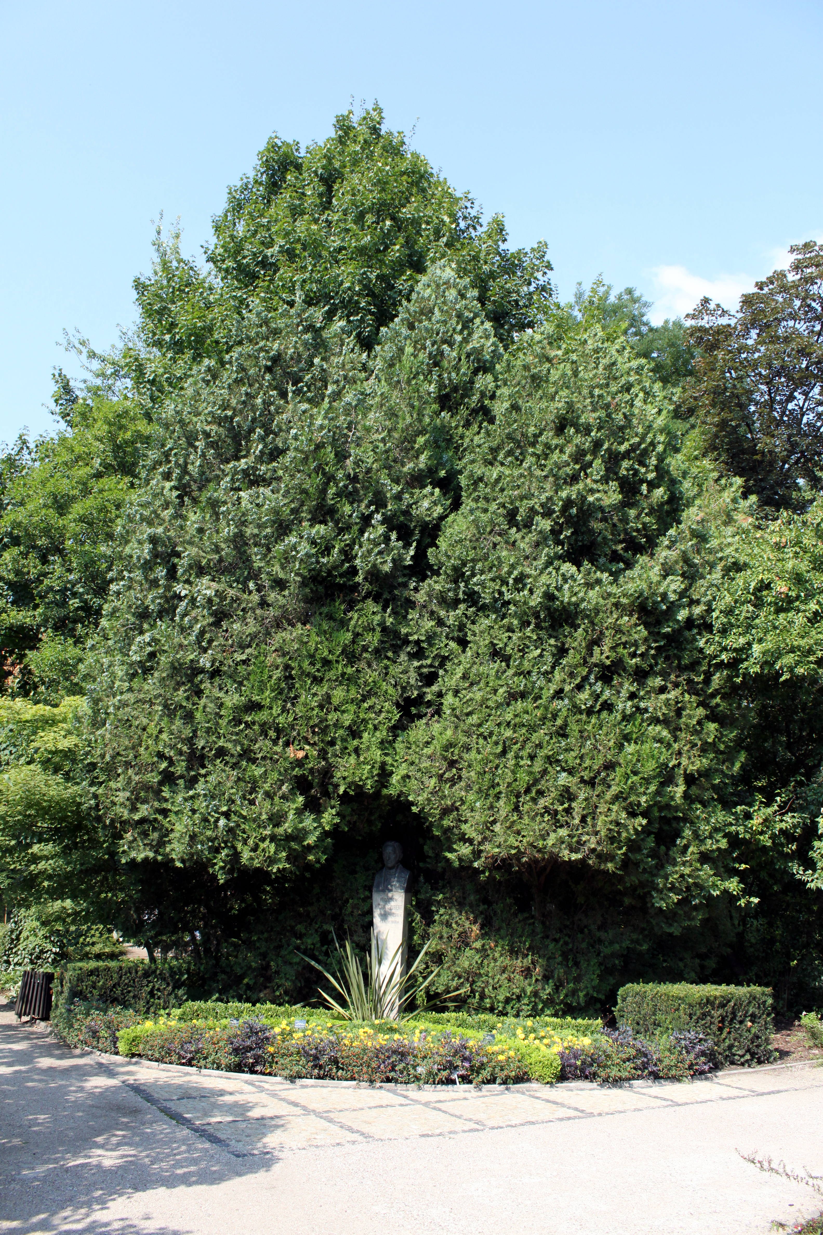 Platycladus orientalis 'Sieboldii' in Warsaw University Botanical Garden, Poland